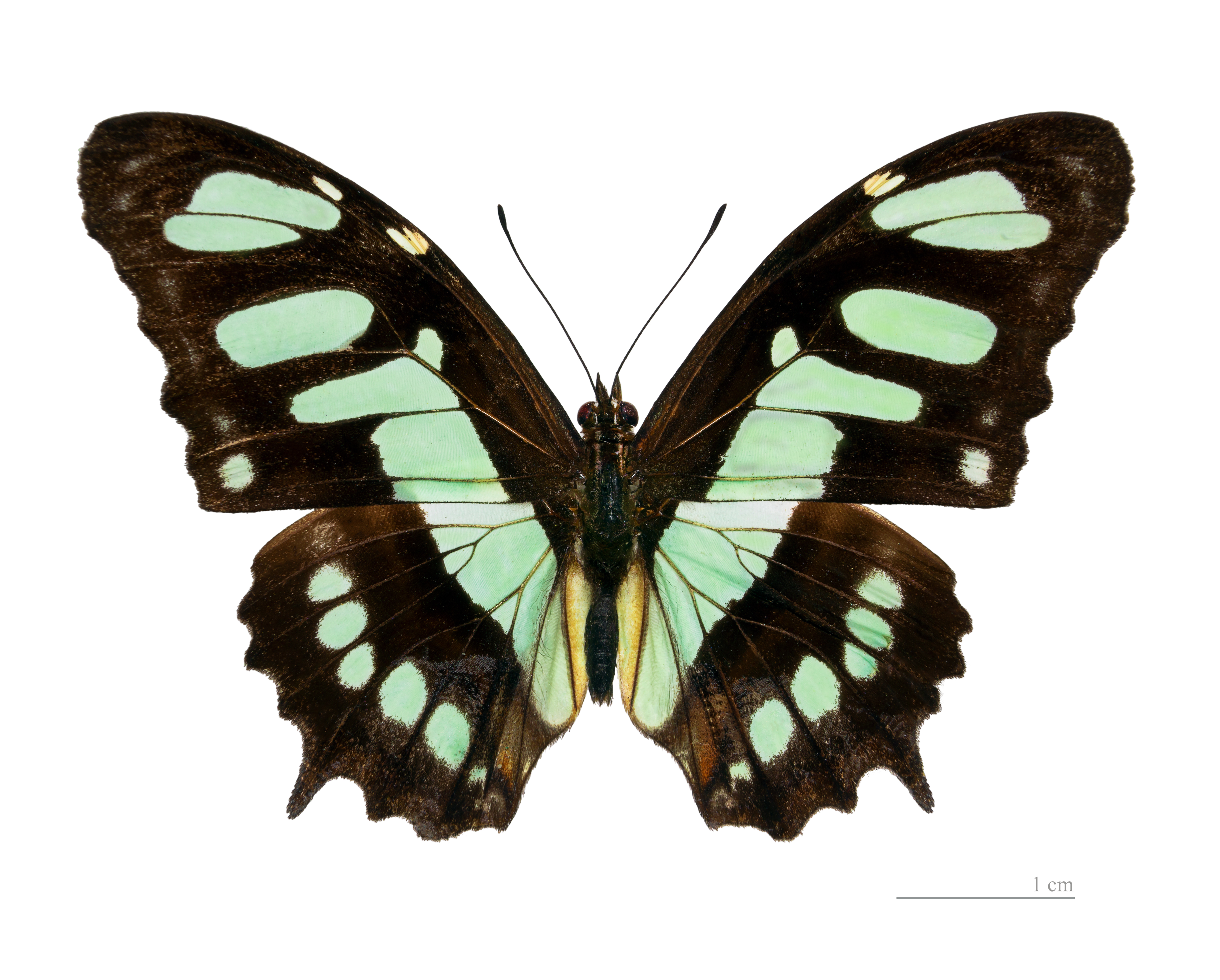 ♂ - Dorsal side Locality : Cacao, Crique Baguot, French Guiana.